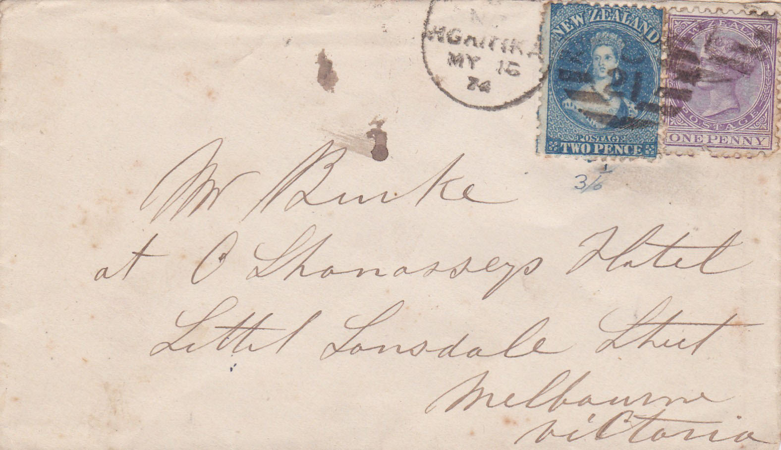 One of the four known covers with the first and second stamp types of New Zealand (the Chalon Head and the First Sideface, issued 1874) in combination. Hokitika, on the west coast of the South Island, was then a gold mining town.